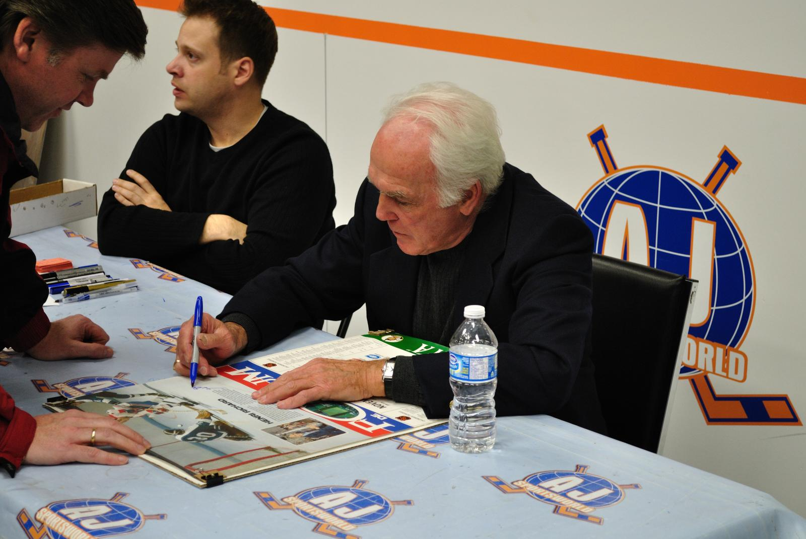 11 time Stanley Cup winner Henri Richard.